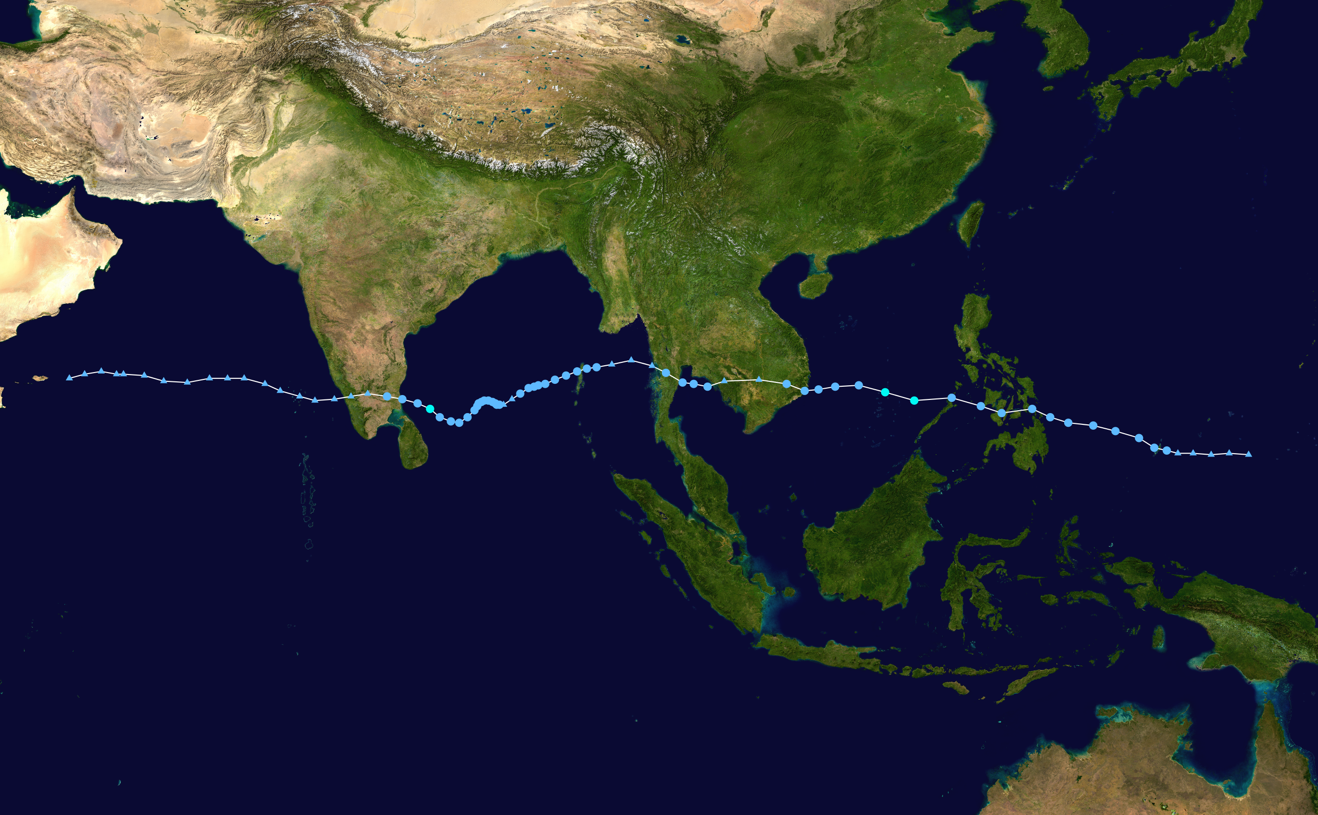 Track map of Tropical Depression Wilma/Depression BOB 05 of the 2013 Pacific typhoon season and the 2013 North Indian Ocean cyclone season. The points show the location of the storm at 6-hour intervals. The colour represents the storm's maximum sustained wind speeds as classified in the Saffir–Simpson scale (see below), and the shape of the data points represent the nature of the storm, according to the legend below. Saffir–Simpson scale Tropical depression≤38 mph≤62 km/h Category 3111–129 mph178–208 km/h Tropical storm39–73 mph63–118 km/h Category 4130–156 mph209–251 km/h Category 174–95 mph119–153 km/h Category 5≥157 mph≥252 km/h Category 296–110 mph154–177 km/h Unknown Storm type Tropical cyclone Subtropical cyclone Extratropical cyclone / Remnant low / Tropical disturbance / Monsoon depression